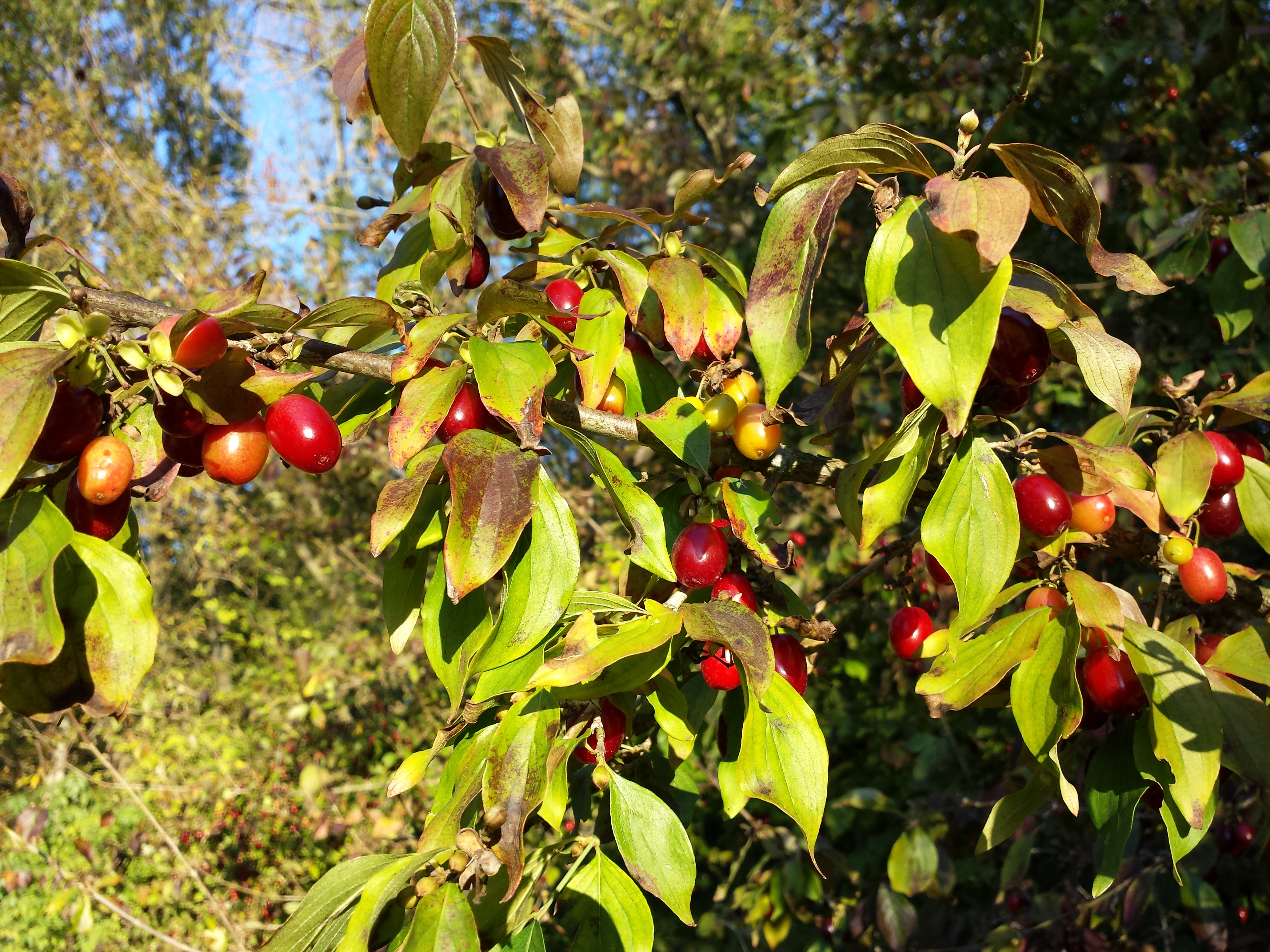 Arms with fruits Taxon: Cornus mas (sensu Fischer et al. EfÖLS 2008) Location: near Niederhollabrunn, district Korneuburg, Lower Austria - ca. 290 m a.s.l. Habitat: border of a wood